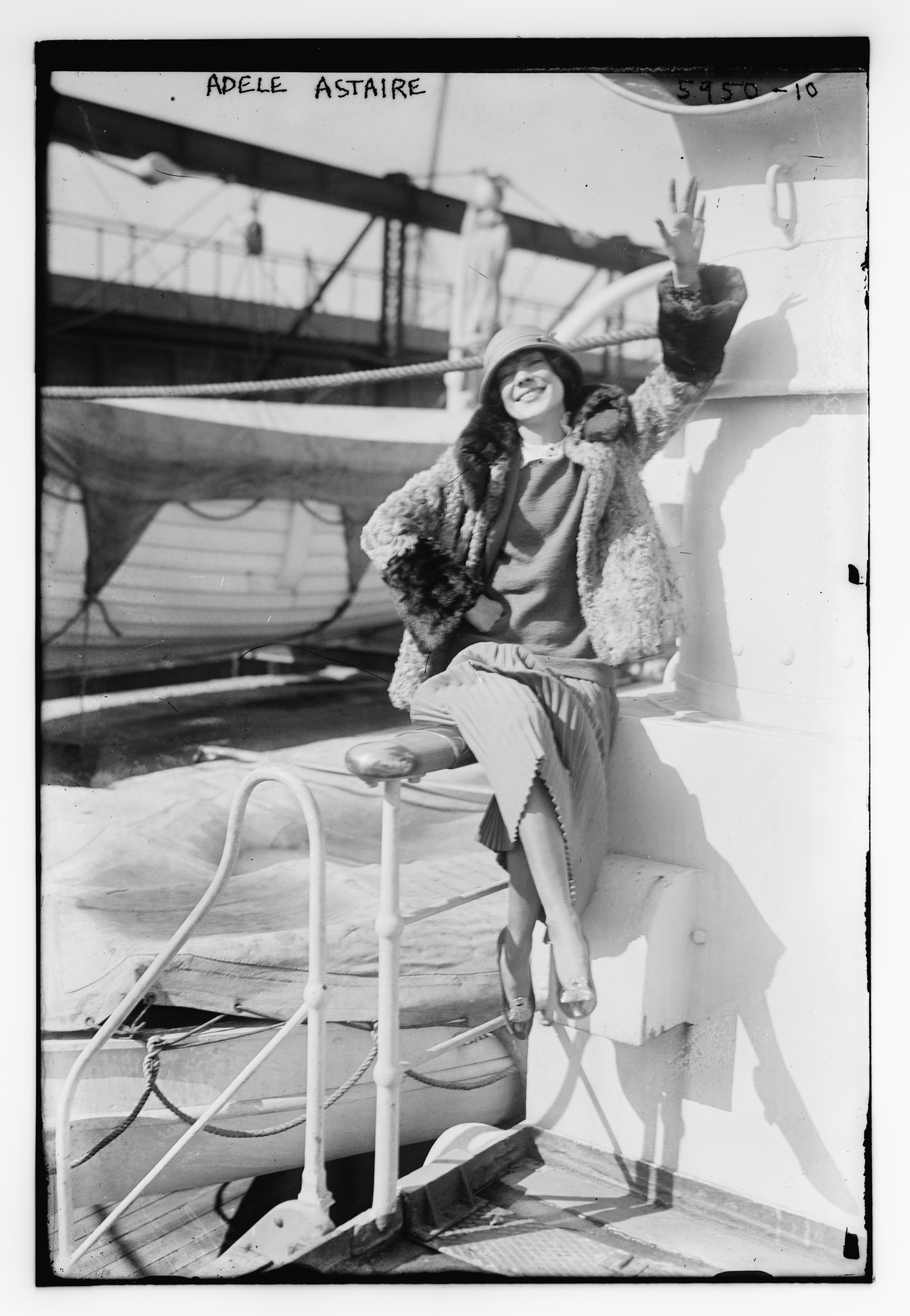 Title: Adele Astaire Abstract/medium: 1 negative : glass ; 5 x 7 in. or smaller.